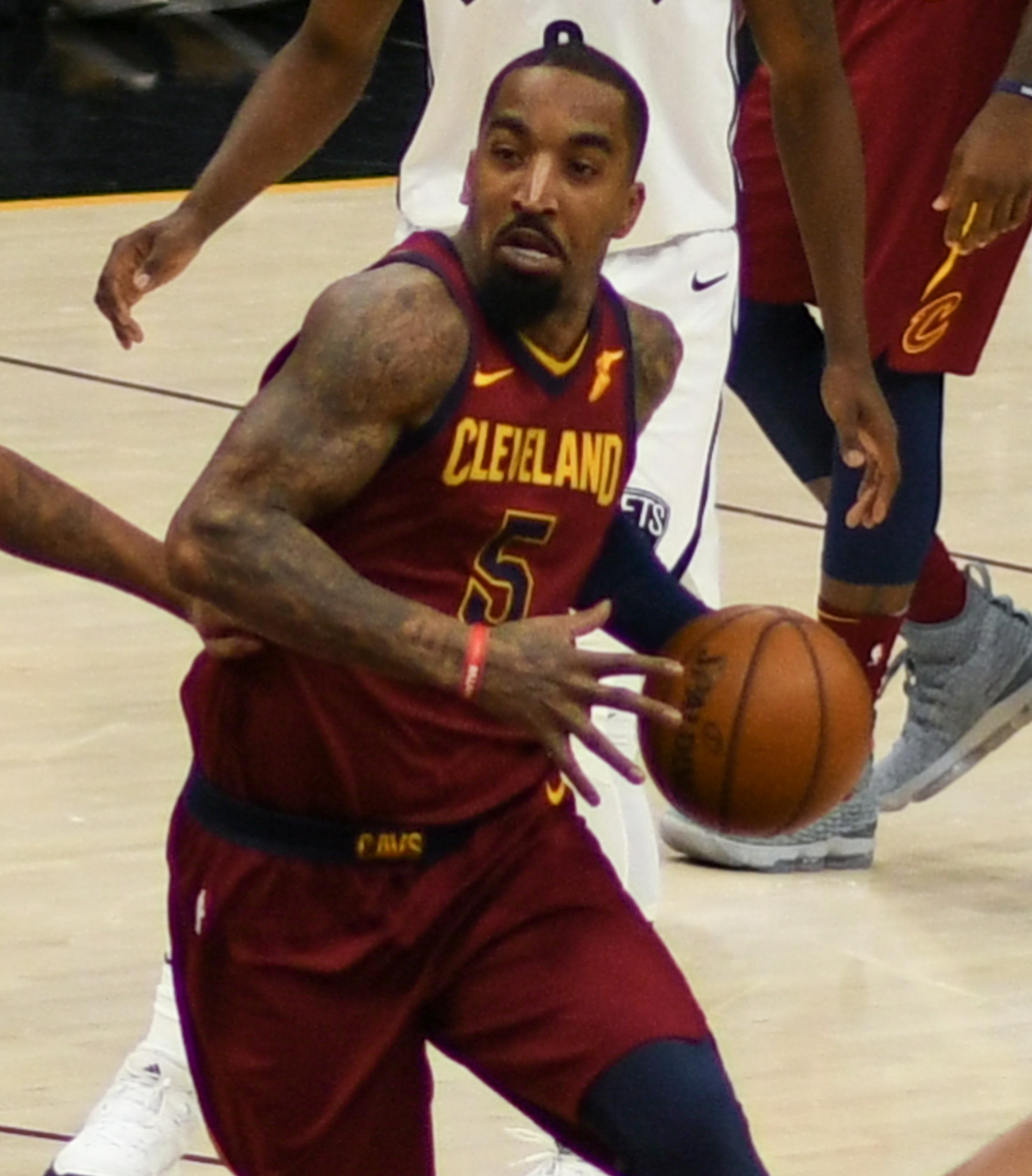 J.R. Smith